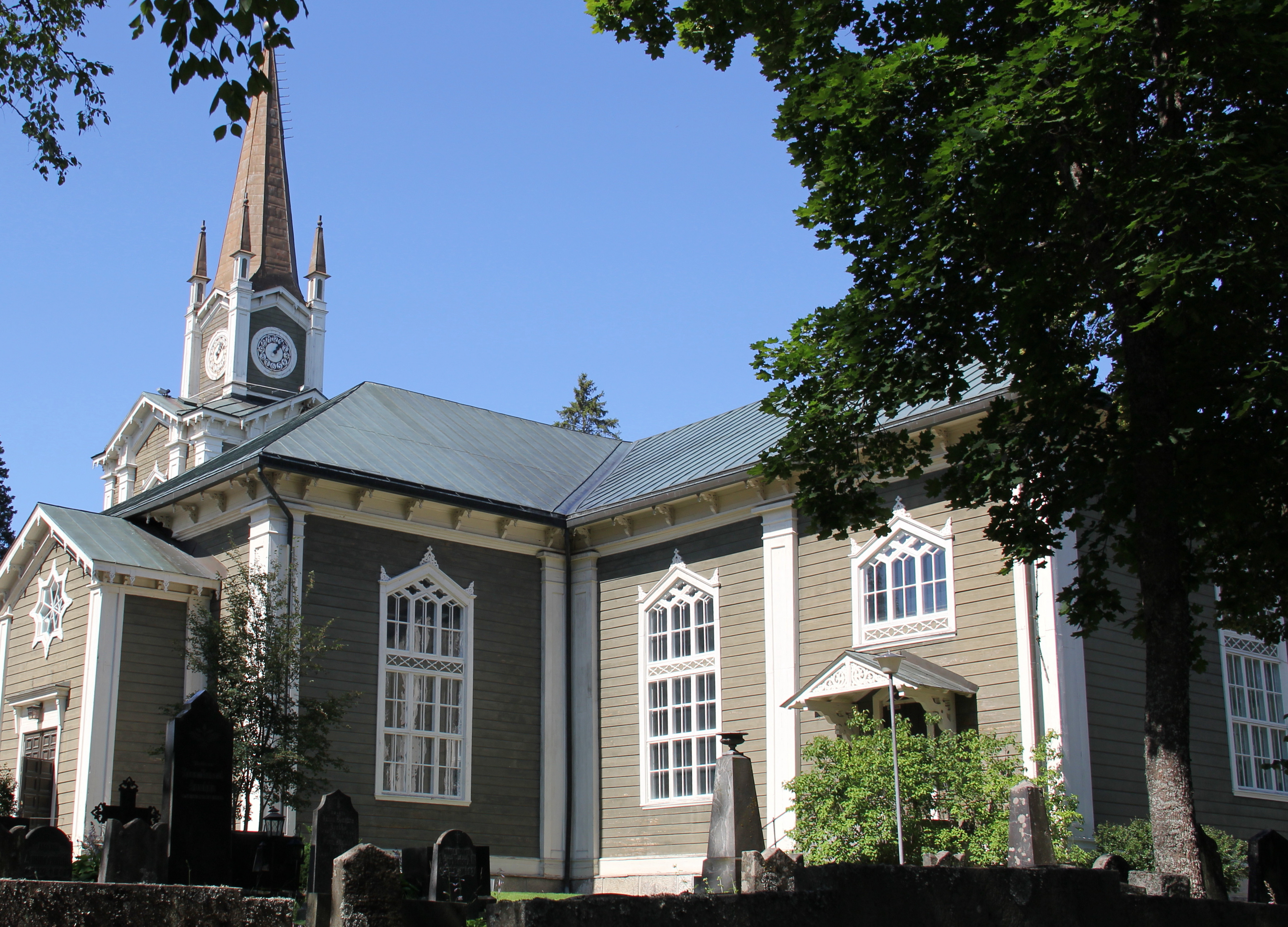 Urjala church, Urjala, Finland. Originally designed by Martti Tolpo, modifications in 1869 designed by architect Carl Albert Edelfelt. Completed in 1806. - Seen from southeast.